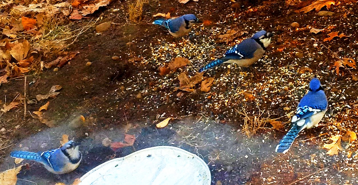 Four Blue Jays eat bird seed outside a home on Long Island, New York